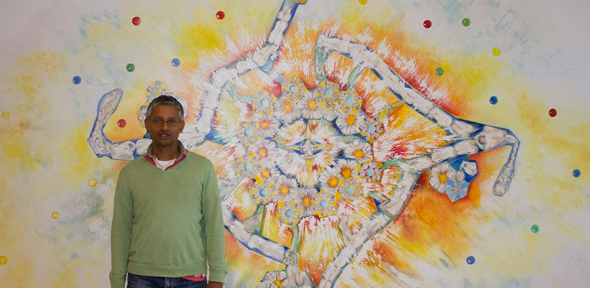 Shankar Balasubramanian in front of a mural in his office representing quadruplex DNA, called ‘Living by the code’ by artist Annie Newman.